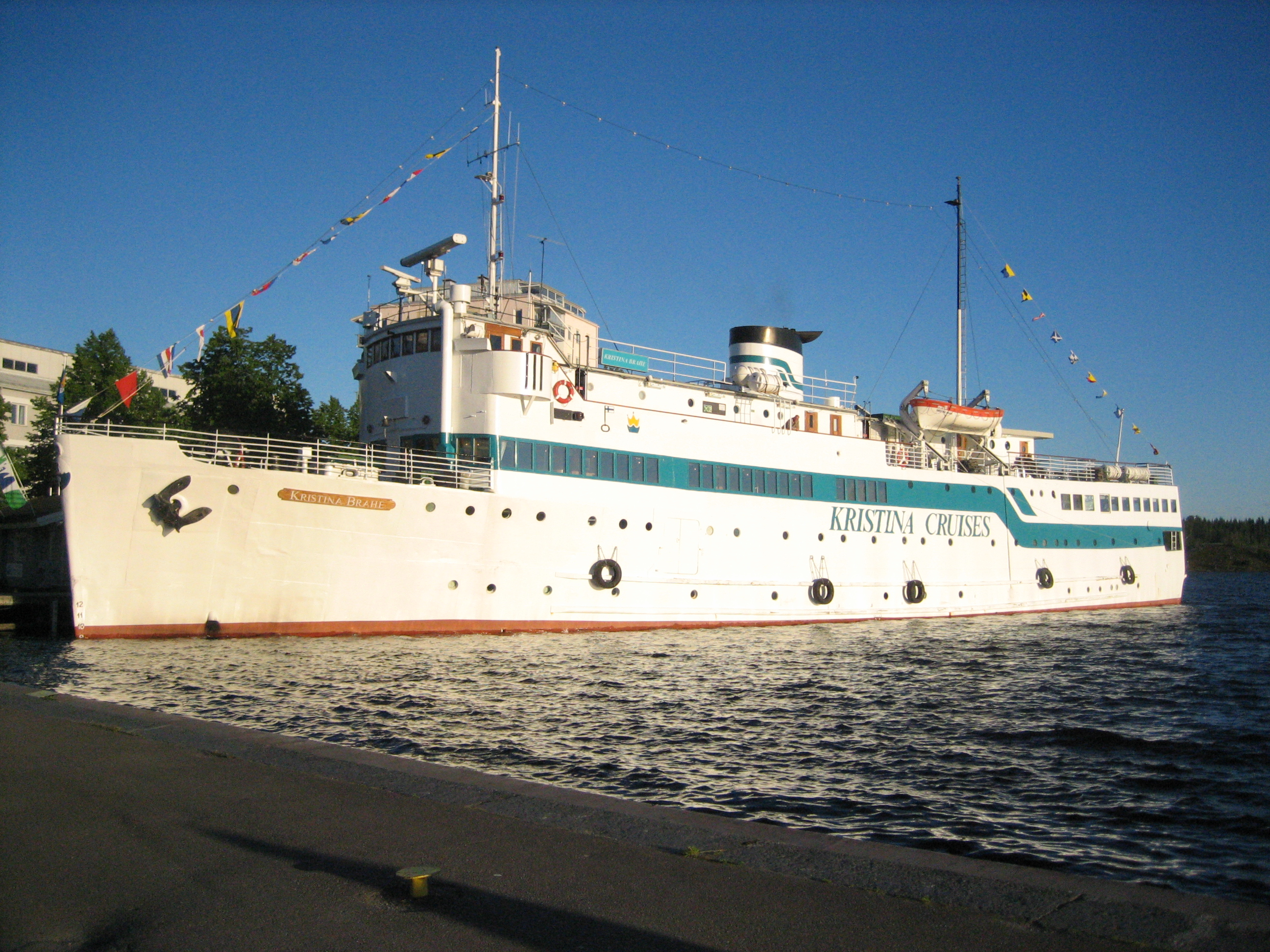 M/S Kristina Brahe, former M/S Sunnhordland, former HMS Kilchrenan, former USS PCE-830 at Savonlinna harbour. IMO-nummer: 5345065 MMSI-nummer: 230197000 Roepnaam: OIEC Lengte: 57 m Breedte: 10 m